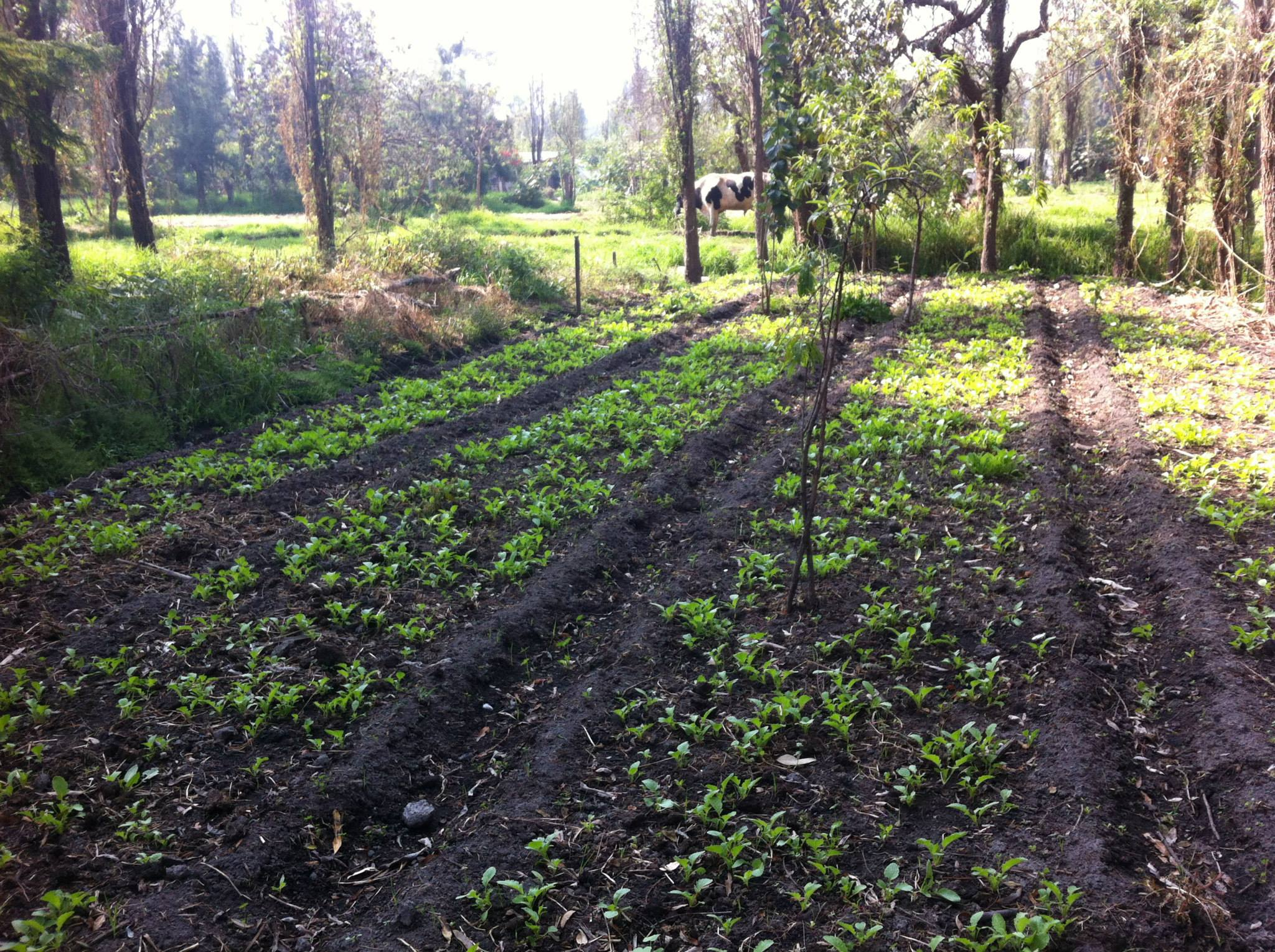 Chinampa con cultivo de rábano en el Lago de Xochimilco.